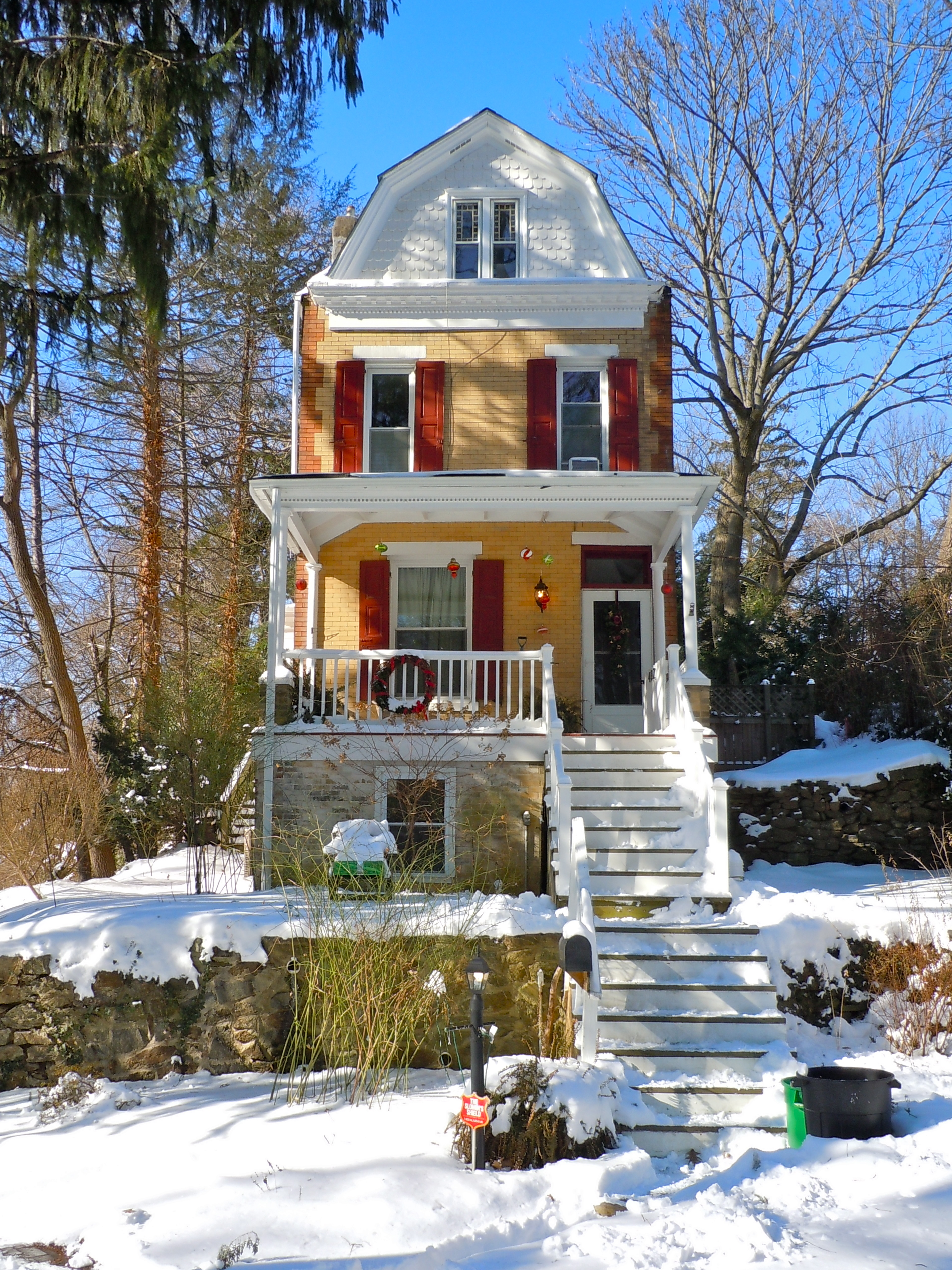 House on Gayley Street near Idlewild in Media, Pennsylvania. City historical marker (underneath the snow!) marks this as the home of a fairly unknown artist, but Thomas Eakins visited the house.